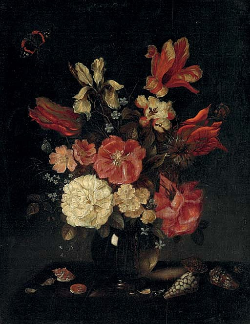 Roses, tulips, an iris, forget-me-nots and other flowers in a vase, with shells on a table and a red admiral.